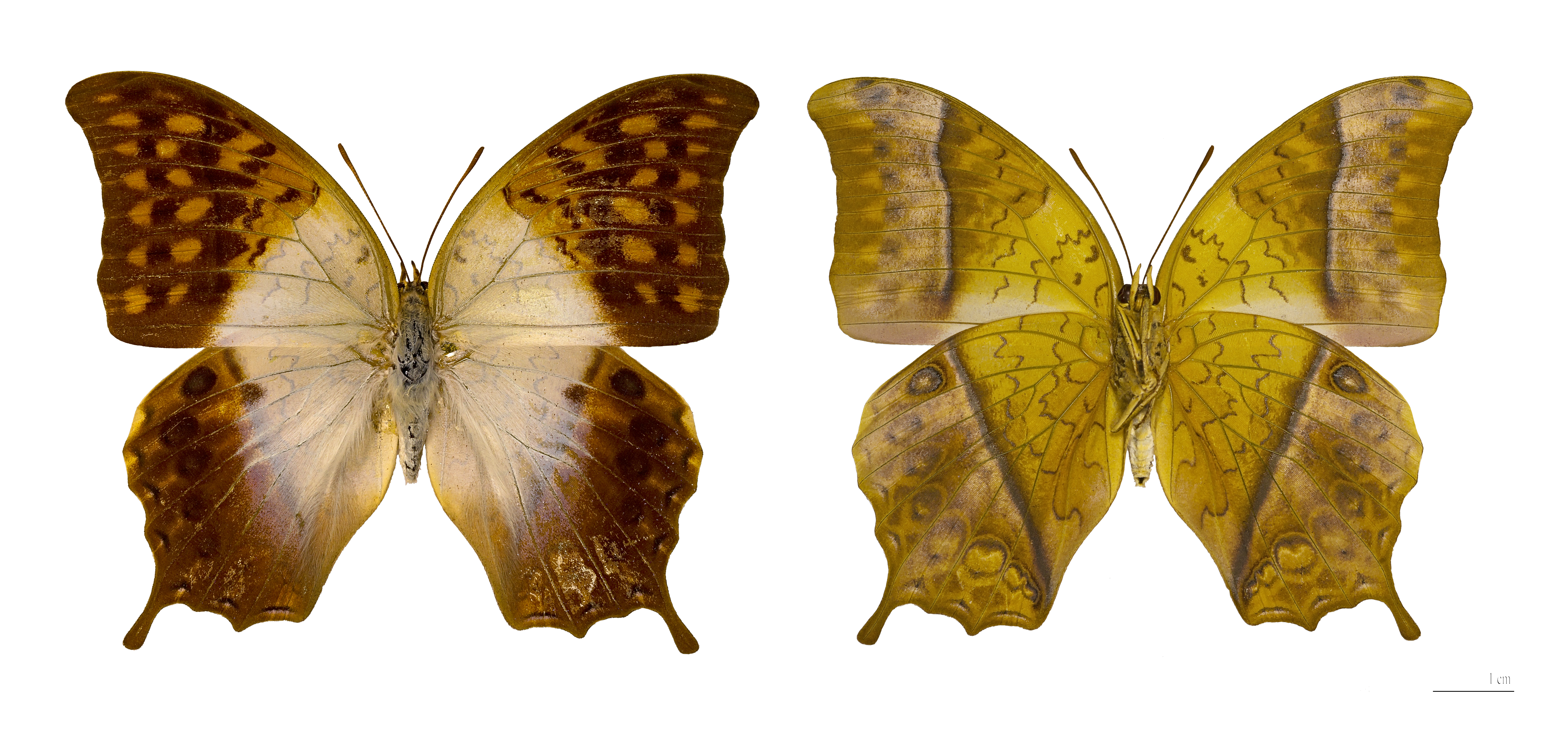 Male specimen – Two views of same specimen Locality: Malawi